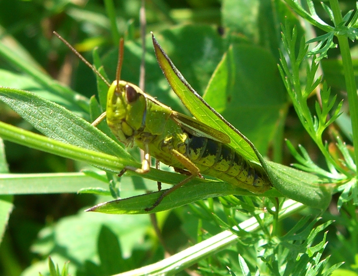 Description: Chorthippus parallelus